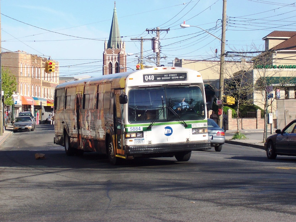 MTA Bus Company MCI Classic #5885 (ex-Green Bus Lines 707) operates on the Q40 in South Jamaica, NY.